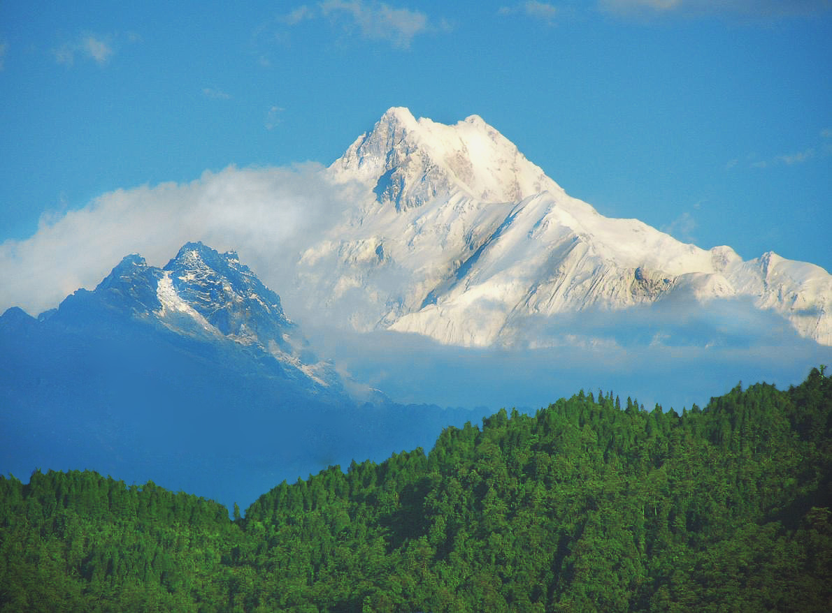 Himalayan mountain Kangchenhunga.